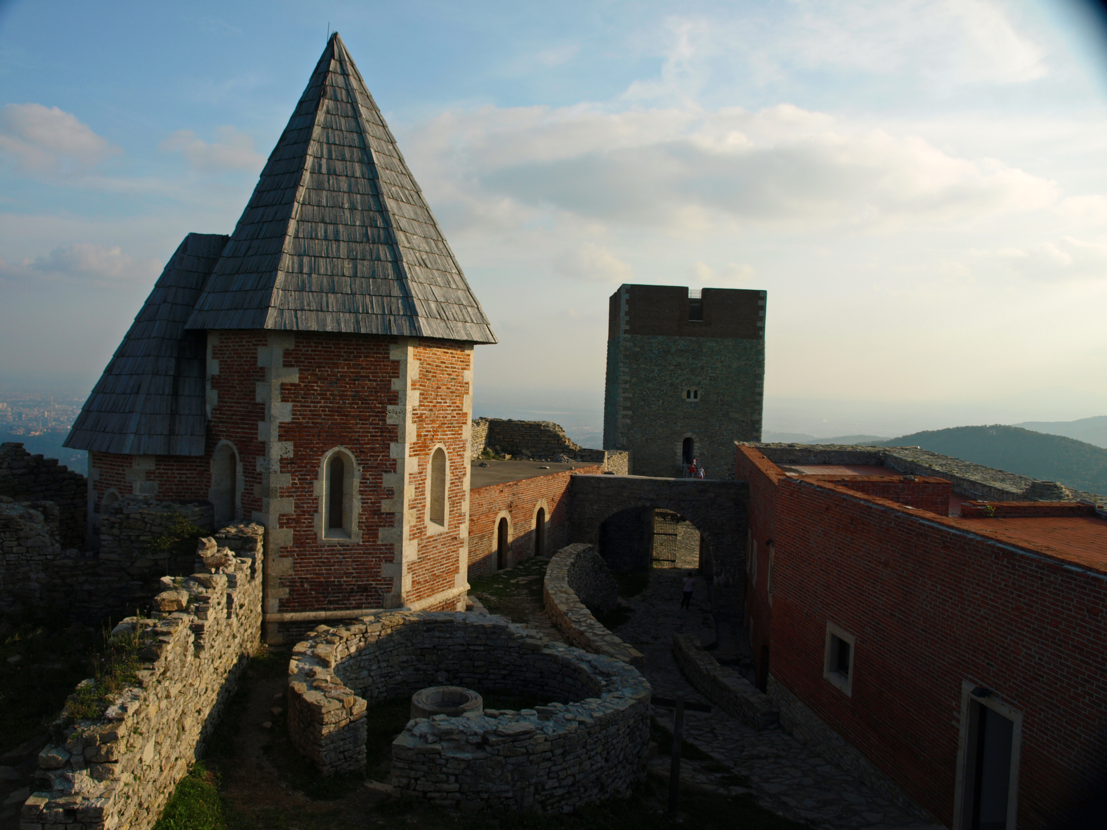 Old town Medvedgrad - Zagreb